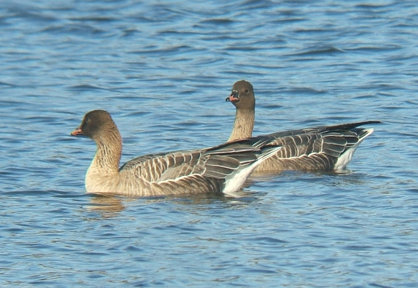 Anser brachyrhynchus, Holywell Pond, Northumberland, UK